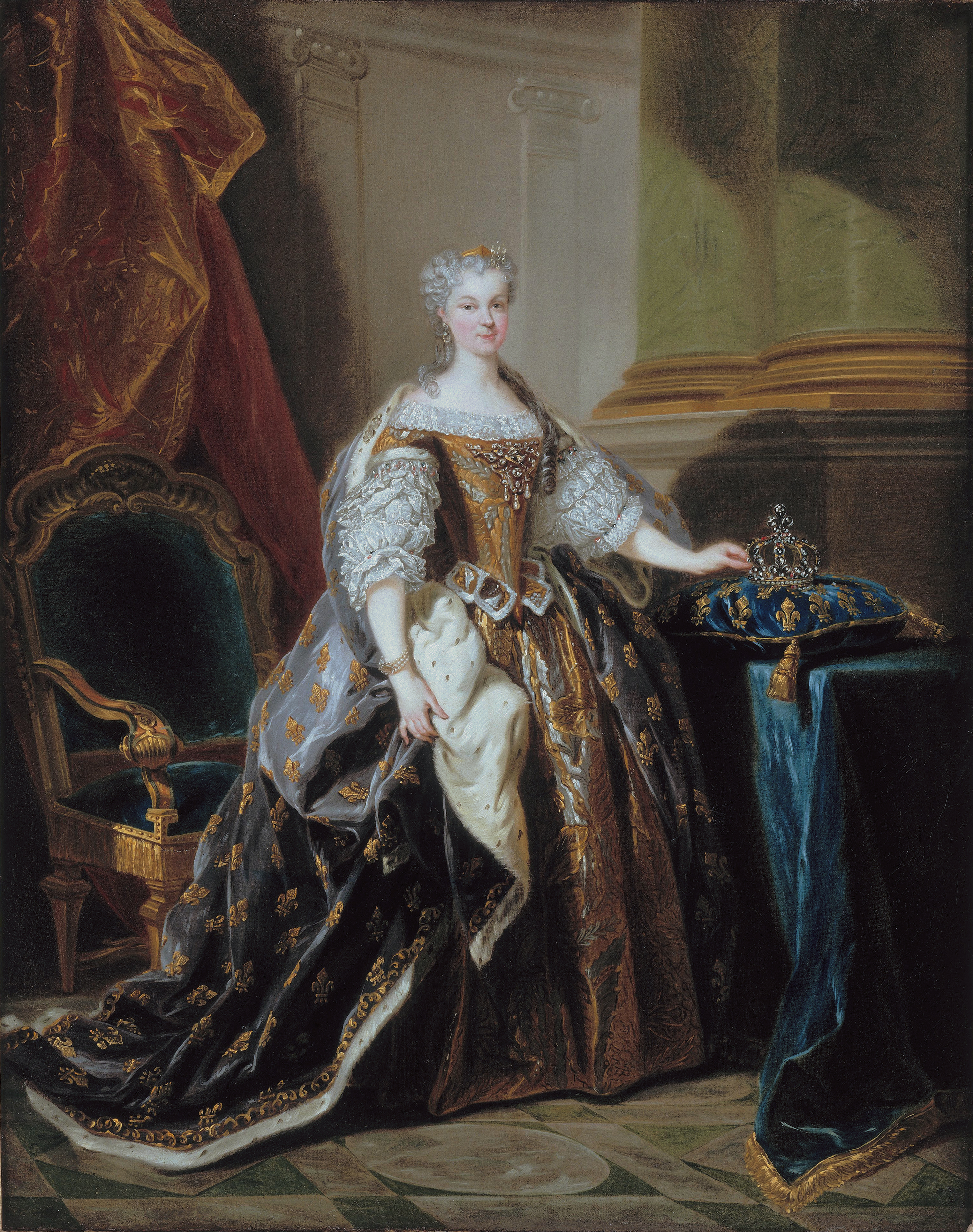 Maria Leszczyńska oil on canvas 81.5 × 66 cm circa 1725